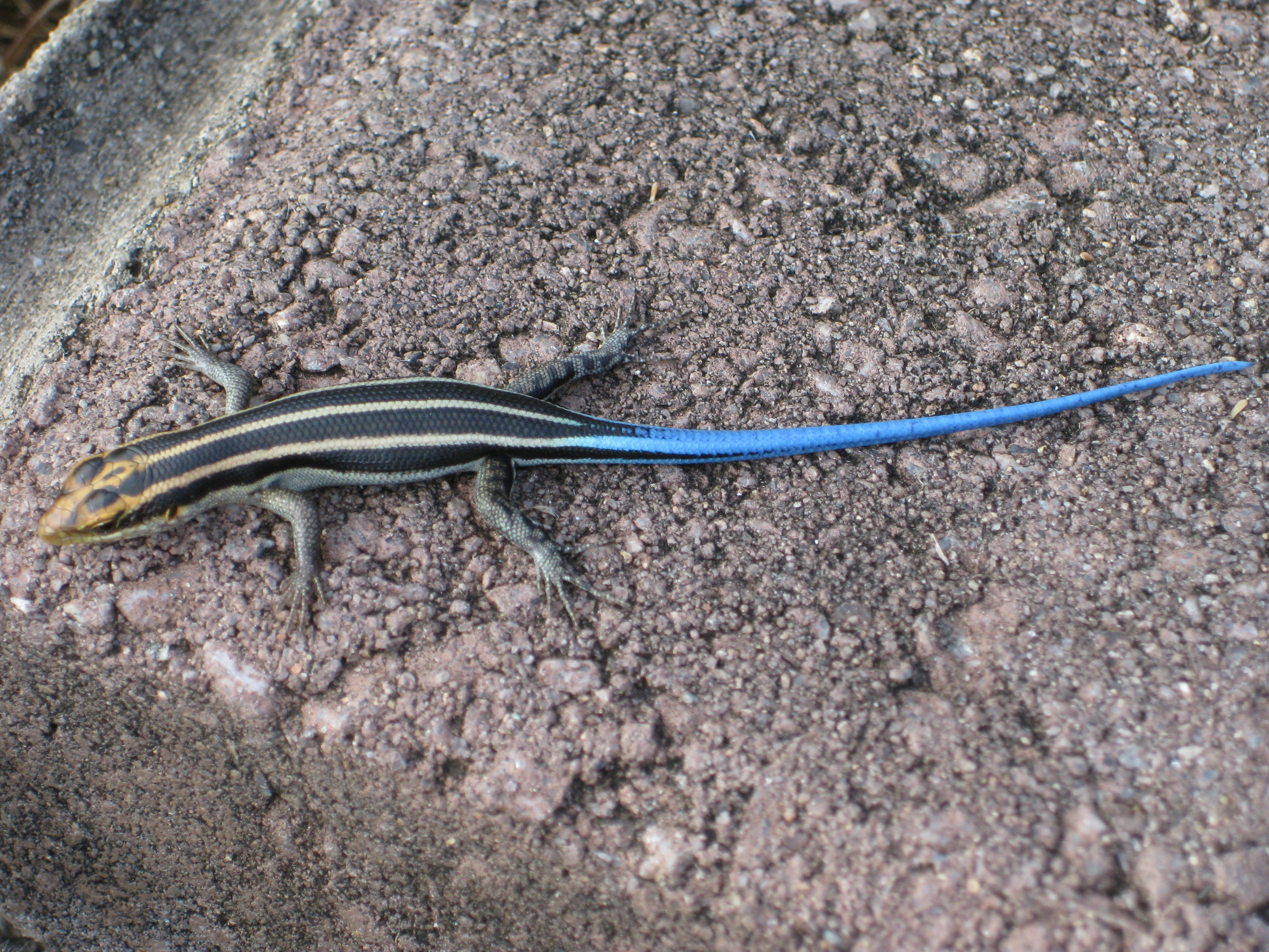 Juvenile five-lined or rainbow skink (Mabuya quinquetaeniata margaritifer).